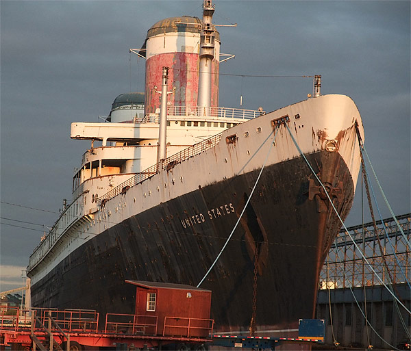 SS United States